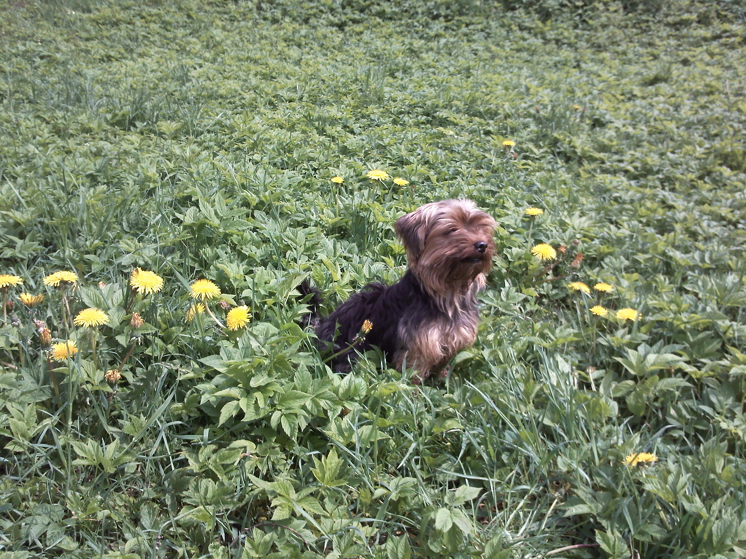 Yorkshire terrier during a play on the meadow